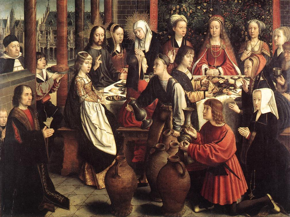 David Gerad's The Marriage of Cana c. 1500, probably after 1503. Oil on wood, 100cm x 128 cm. Musée du Louvre, Paris.